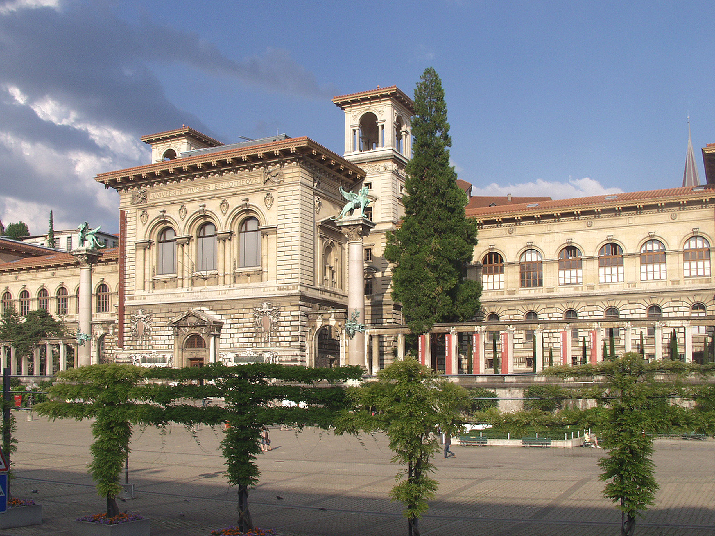 Palais de Rumine, Lausanne, Switzerland